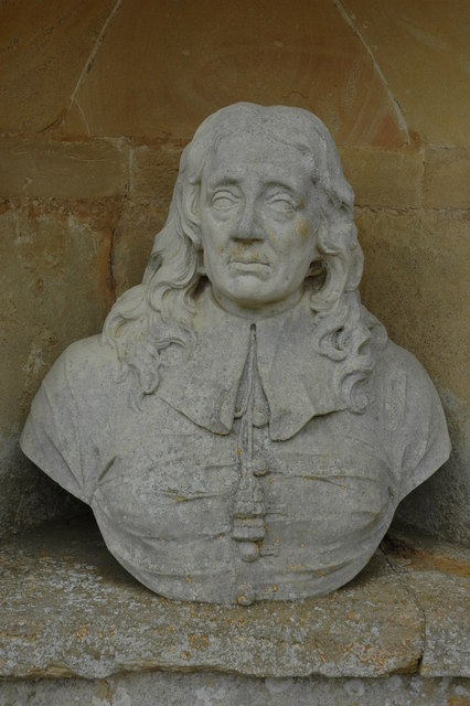 John Milton, Temple of British Worthies, Stowe